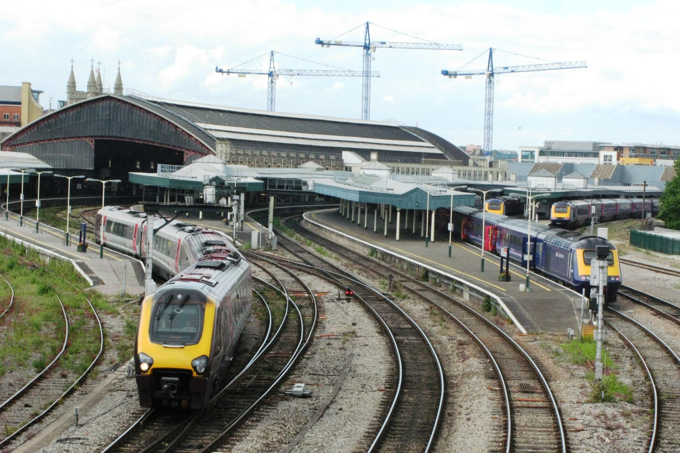 Temple Meads station, Bristol, England. Viewed from Bath Road bridge, the CrossCountry Voyager train is leaving Platform 4 on a Manchester Piccadilly to Paignton working.